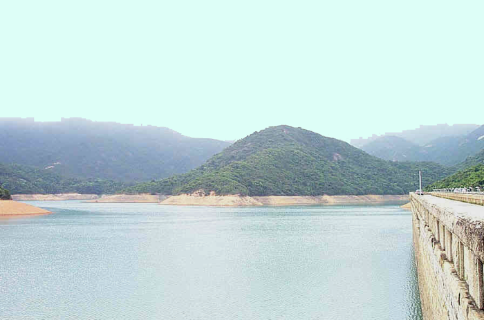 Tai Tam Tuk Reservoir, Hong Kong